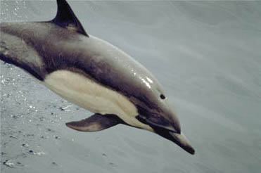 Common dolphin